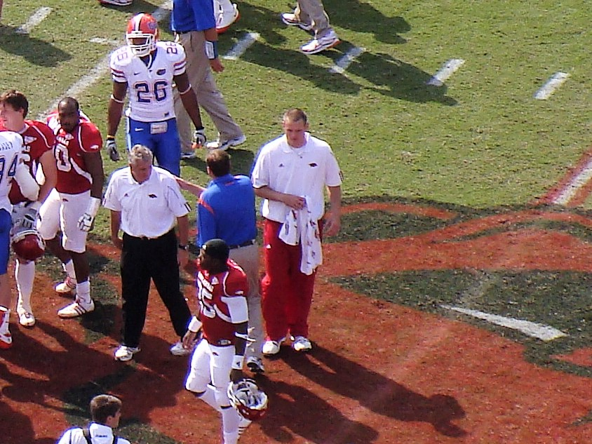 Ryan Mallett, white shirt, after a football game at Razorback Stadium This file has been extracted from another file: End of game handshake, UF at Arkansas.jpg